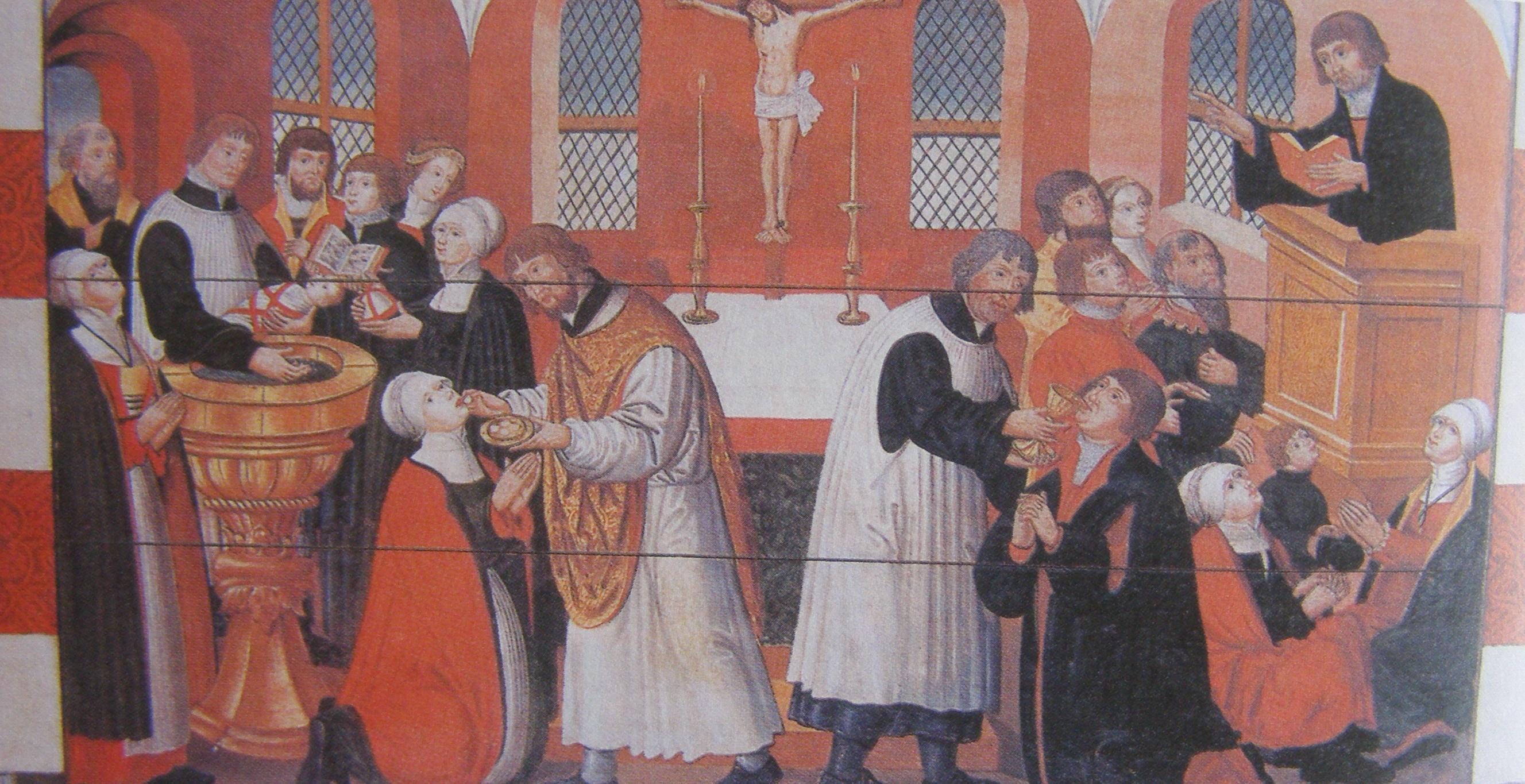 The differences of the Calvinism and Lutheranism